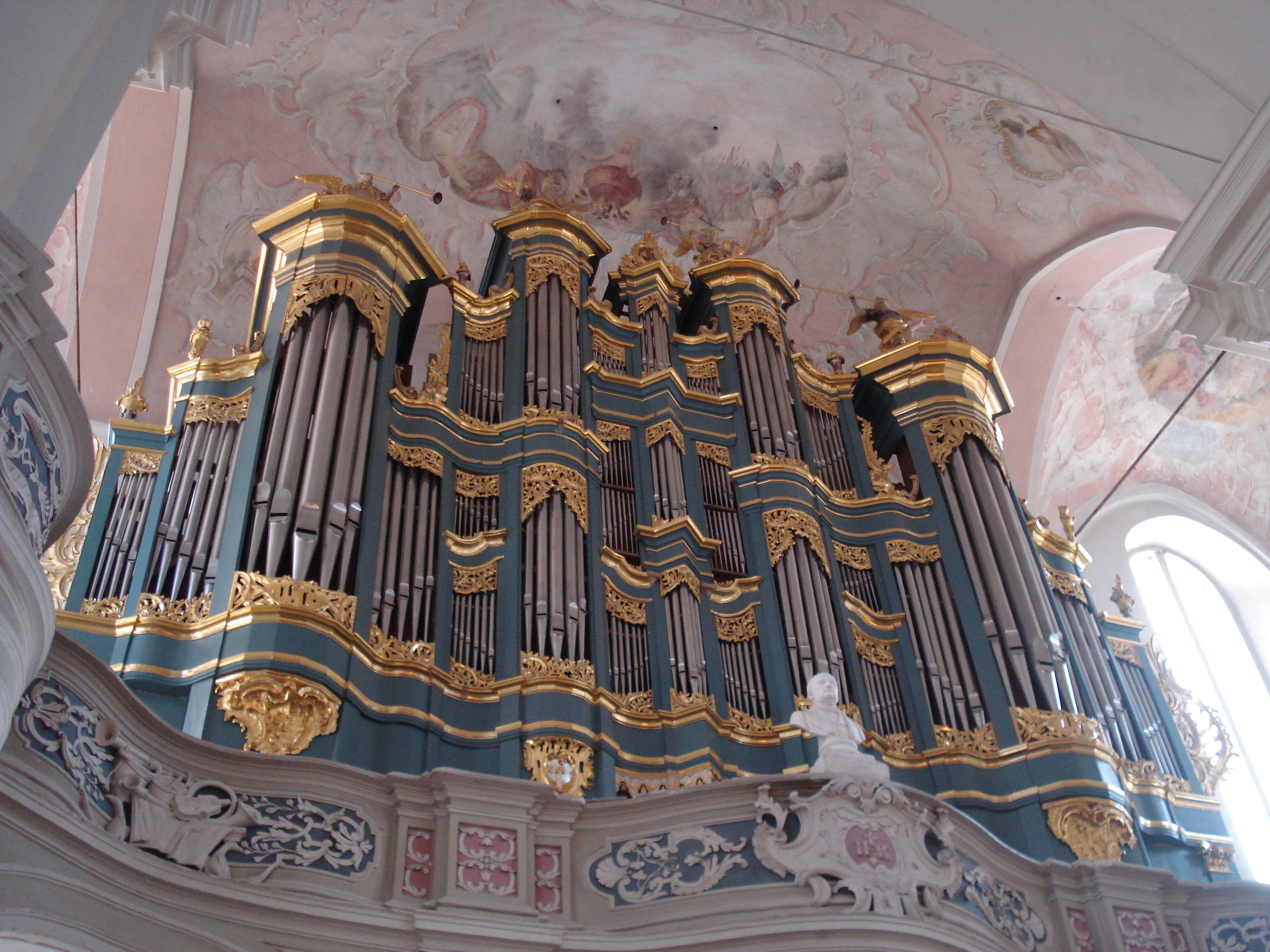 Organ in the Church of St. John and bust of Stanislaw Moniuszko (Vilnius)